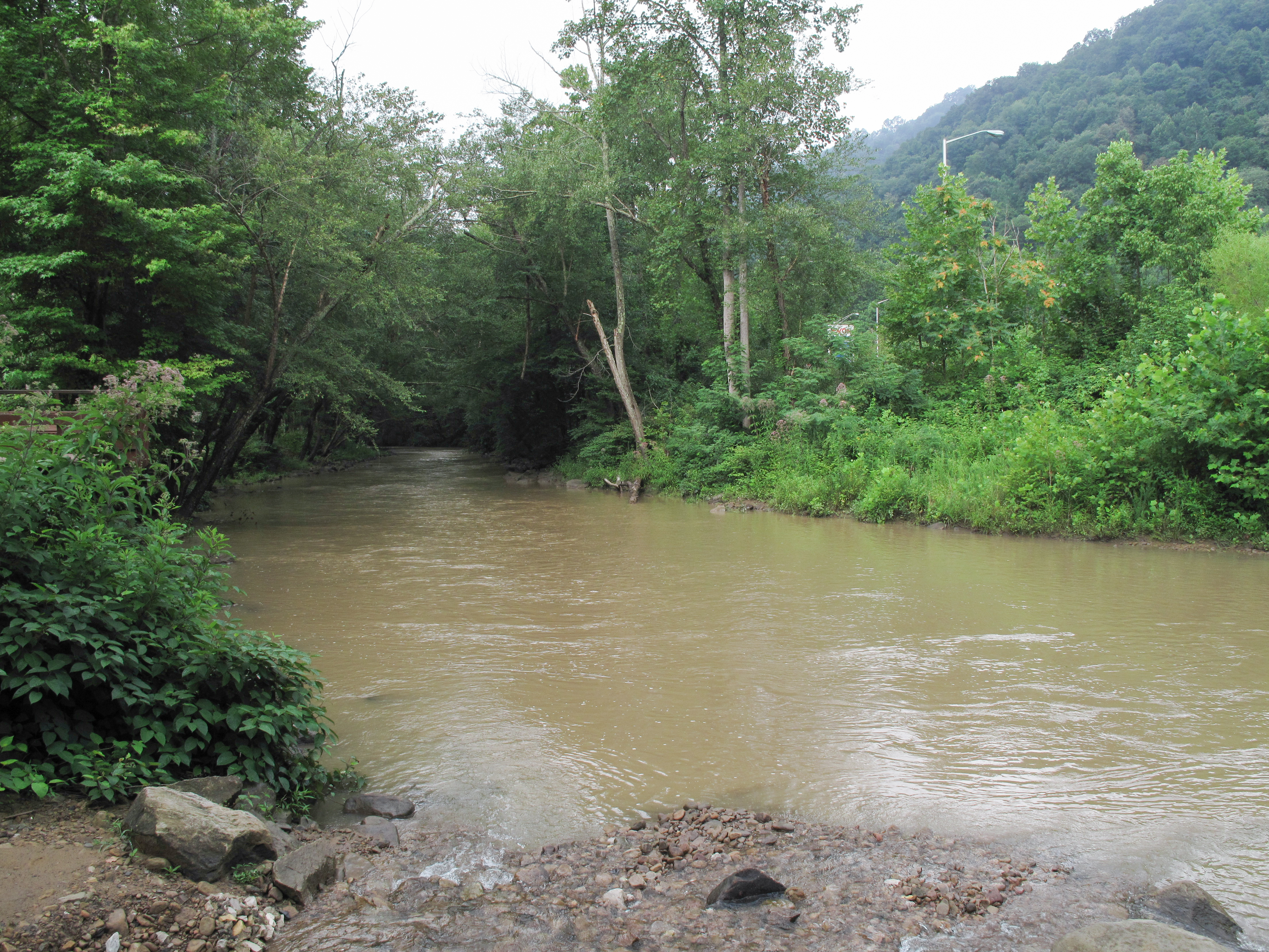 Paint Creek as viewed from Ash Branch Park along Paint Creek Road (County Road 83), north of Nuckolls in Kanawha County, West Virginia. Light poles and signage of the Morton Travel Plaza on the West Virginia Turnpike are visible on the opposite streambank.